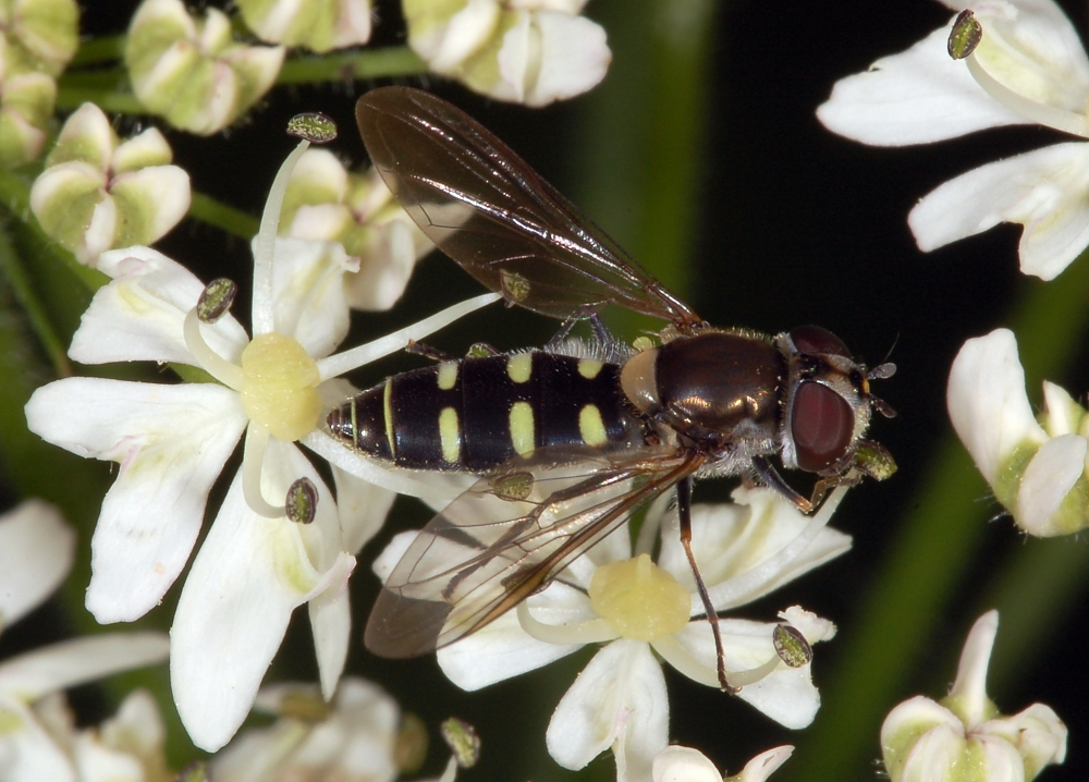 Melangyna labiatarum, Valle Maggia, Ticina, Switzerland